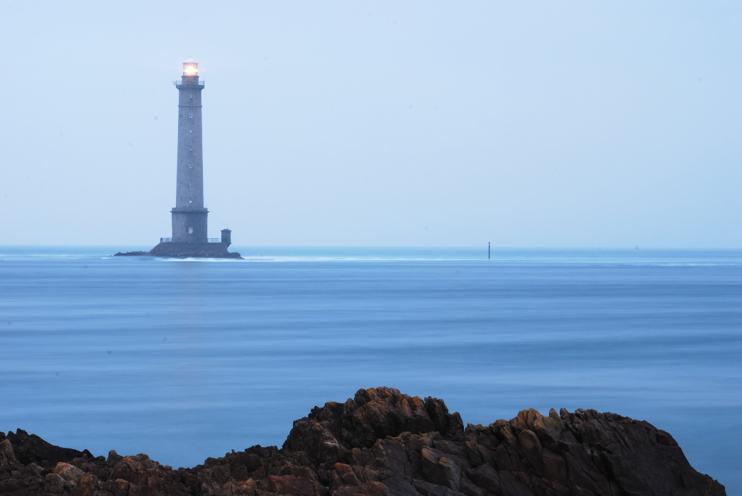 La Hague Lighthouse at twilight